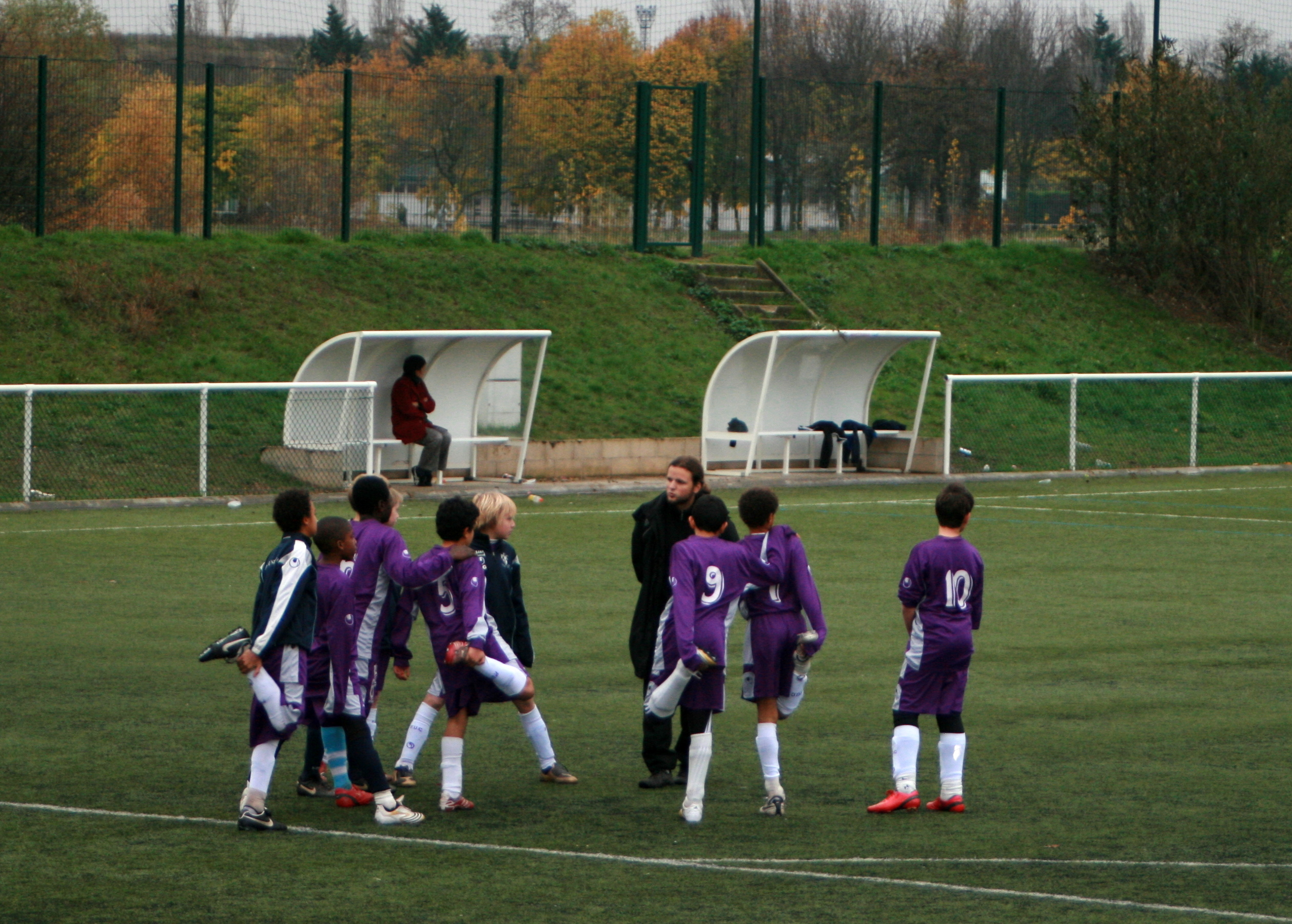 Paris Université Club football youngsters, training